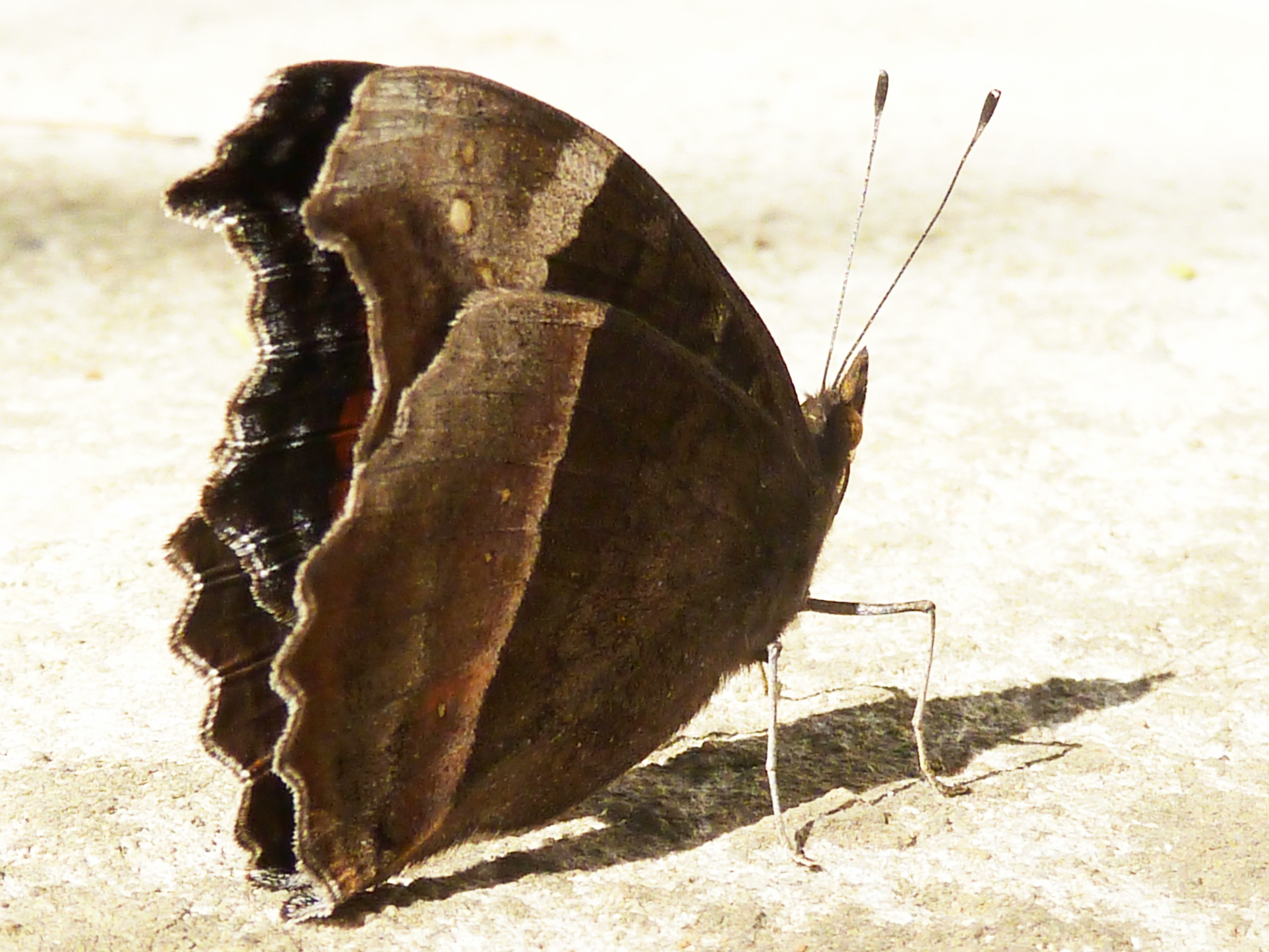 Garden Commodore in suburban Pretoria, South Africa